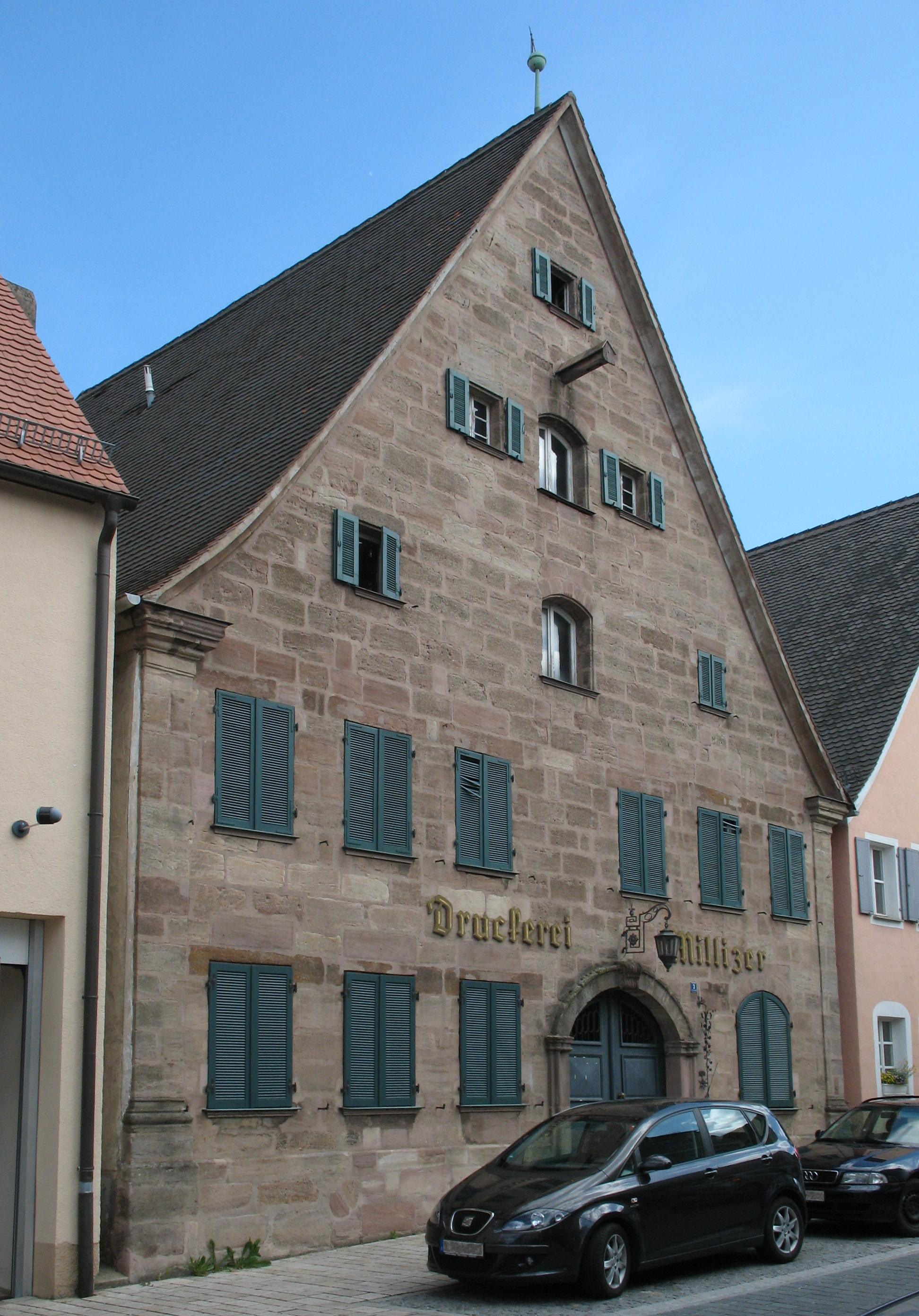 Listed building in Hilpoltstein in Bavaria, Germany